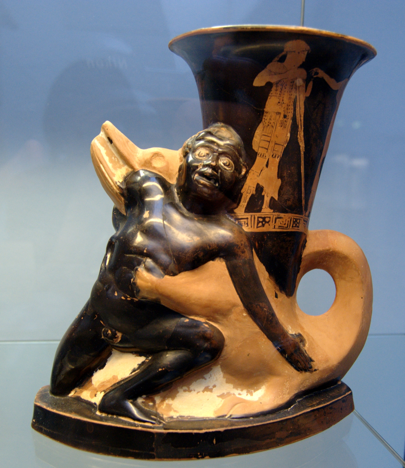 Rhyton in shape of negroid child devoured by a crocodile, 460–450 BC.